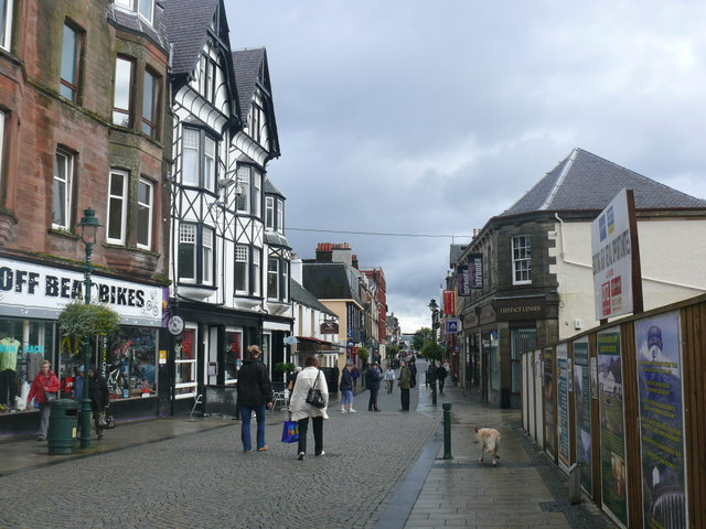 High Street Fort William A very wet day in Fort William